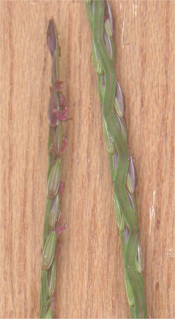 Digitaria sanguinalis spikes